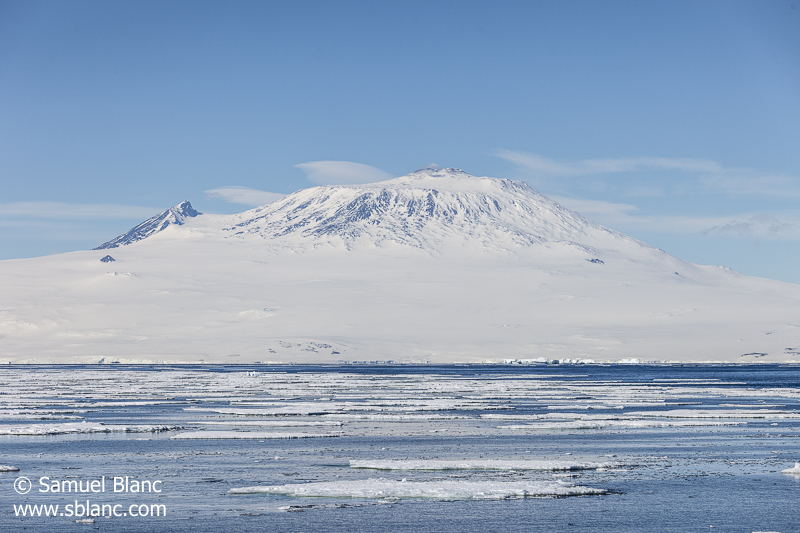 Mont Erebus en Antarctique à 3794 m d'altitude